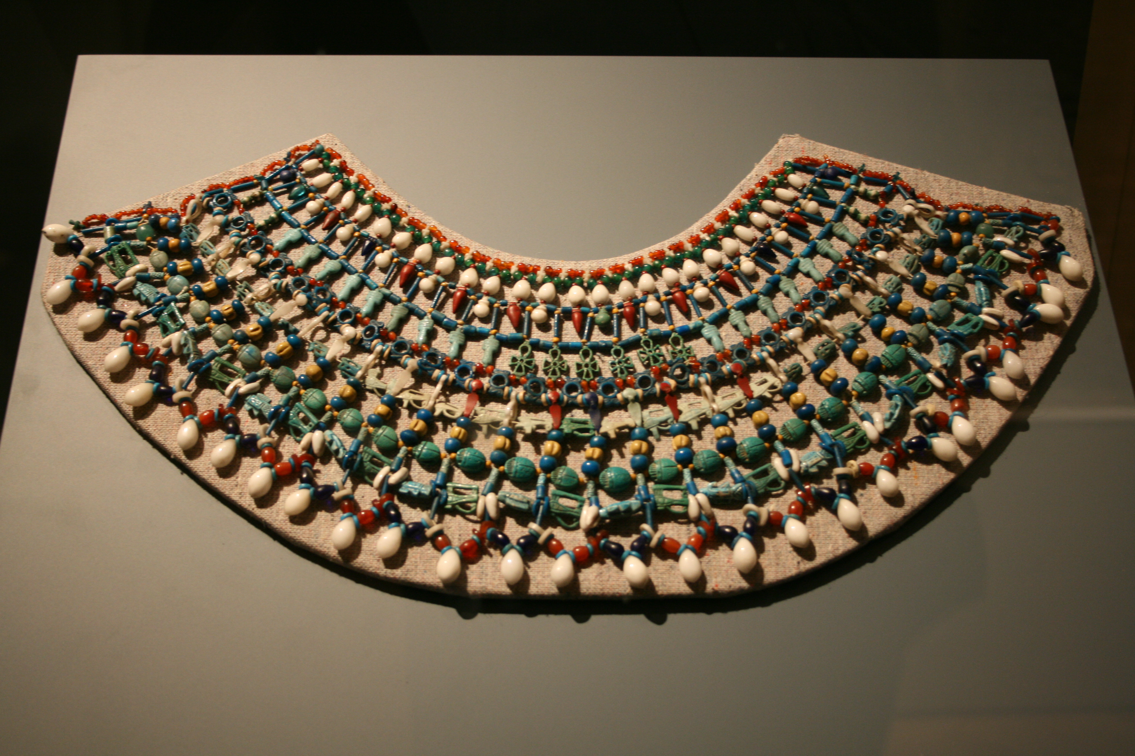 Necklace from Meroe, composed of beads, with hieroglyhs: Ankh, Djed, Eye of Horus, etc.